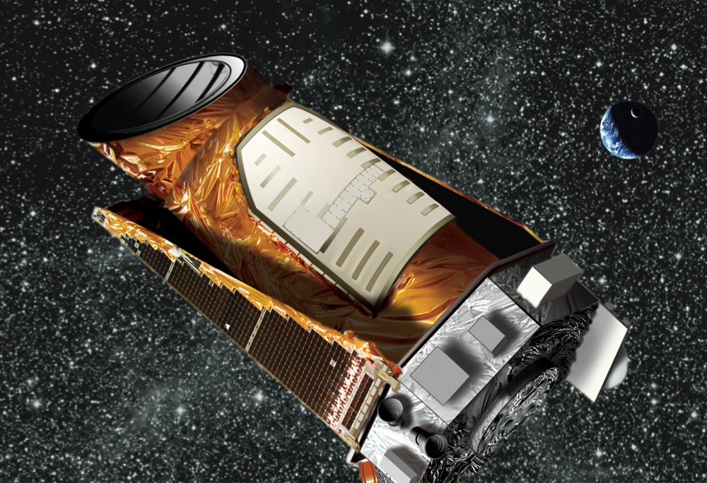 Artist's rendition of Kepler spacecraft.